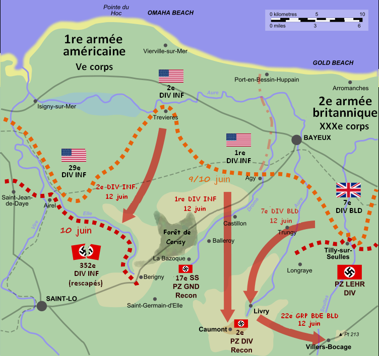 The formation of the "Caumont Gap". During the night of 9/10 June 1944 the German 352nd Infantry Division fell back under US pressure, creating a wide gap in the German front line. This was exploited by the British 7th Armoured Division in an attempt to flank the Panzer Lehr Division via Villers-Bocage and Point 213.